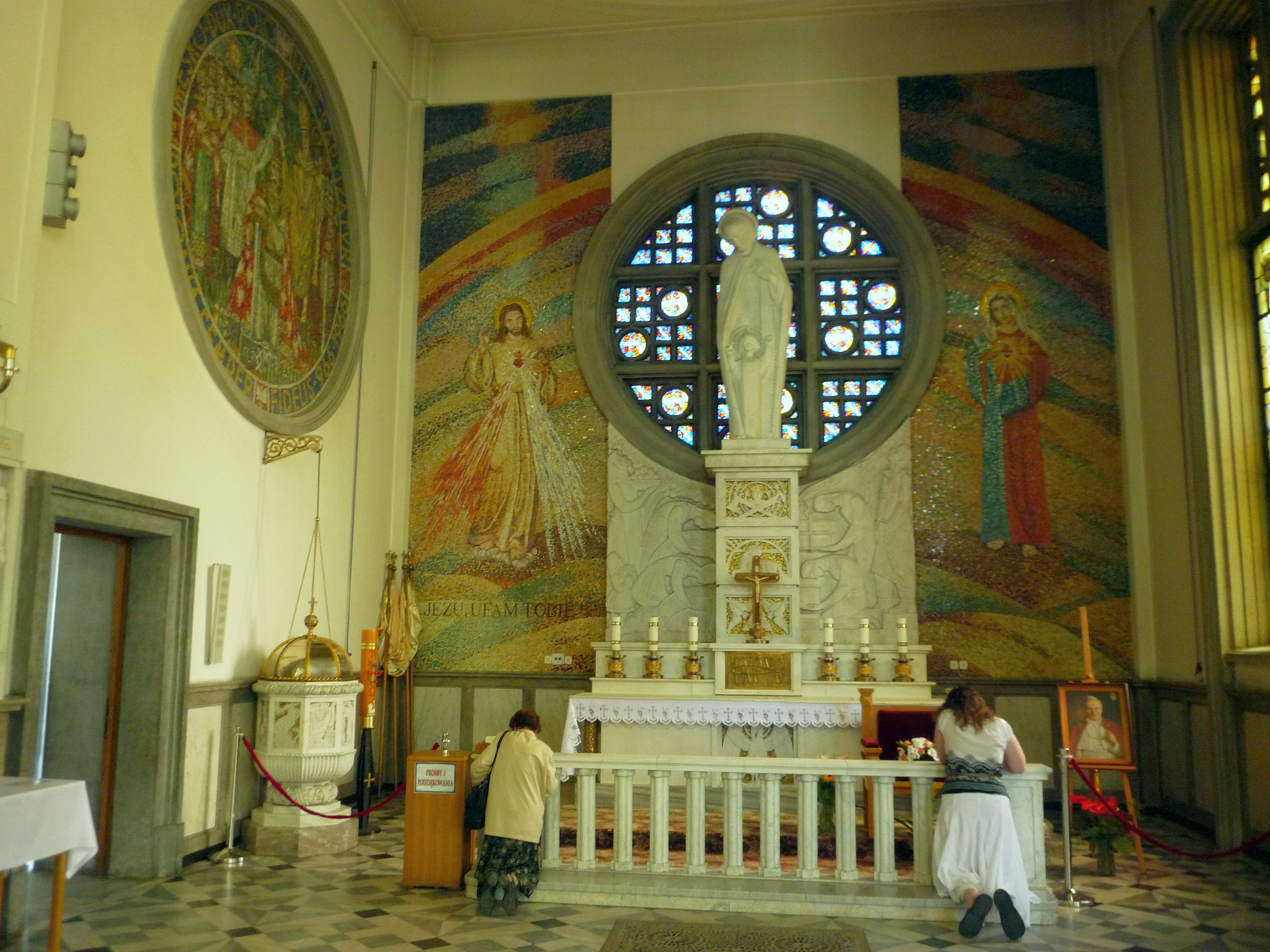 Basilica of Niepokalanów - the Chapel of St. Joseph